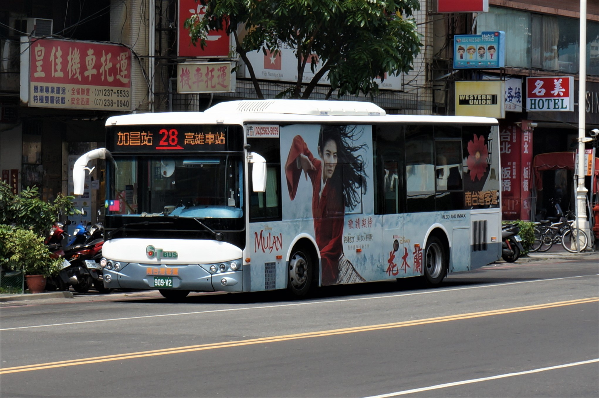 South Taiwan Bus 909-V2